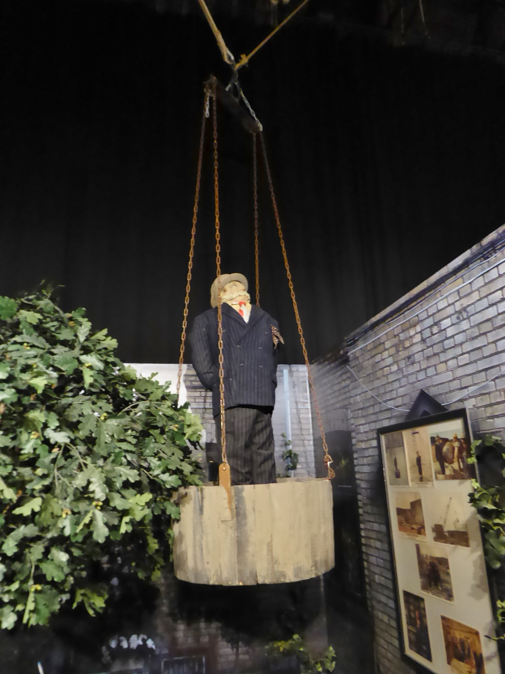 Reconstruction of a scene from the Danish 1974 movie Olsen-bandens sidste bedrifter in a special Olsen-banden exhibition at Nordisk Film in Copenhagen. Egon Olsen played by Ove Sprogøe was supposed to be drowned in a tub with cement but got saved by Kjeld and Benny.